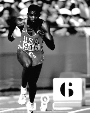 Photograph of Carl Lewis, Olympic gold medal winner.